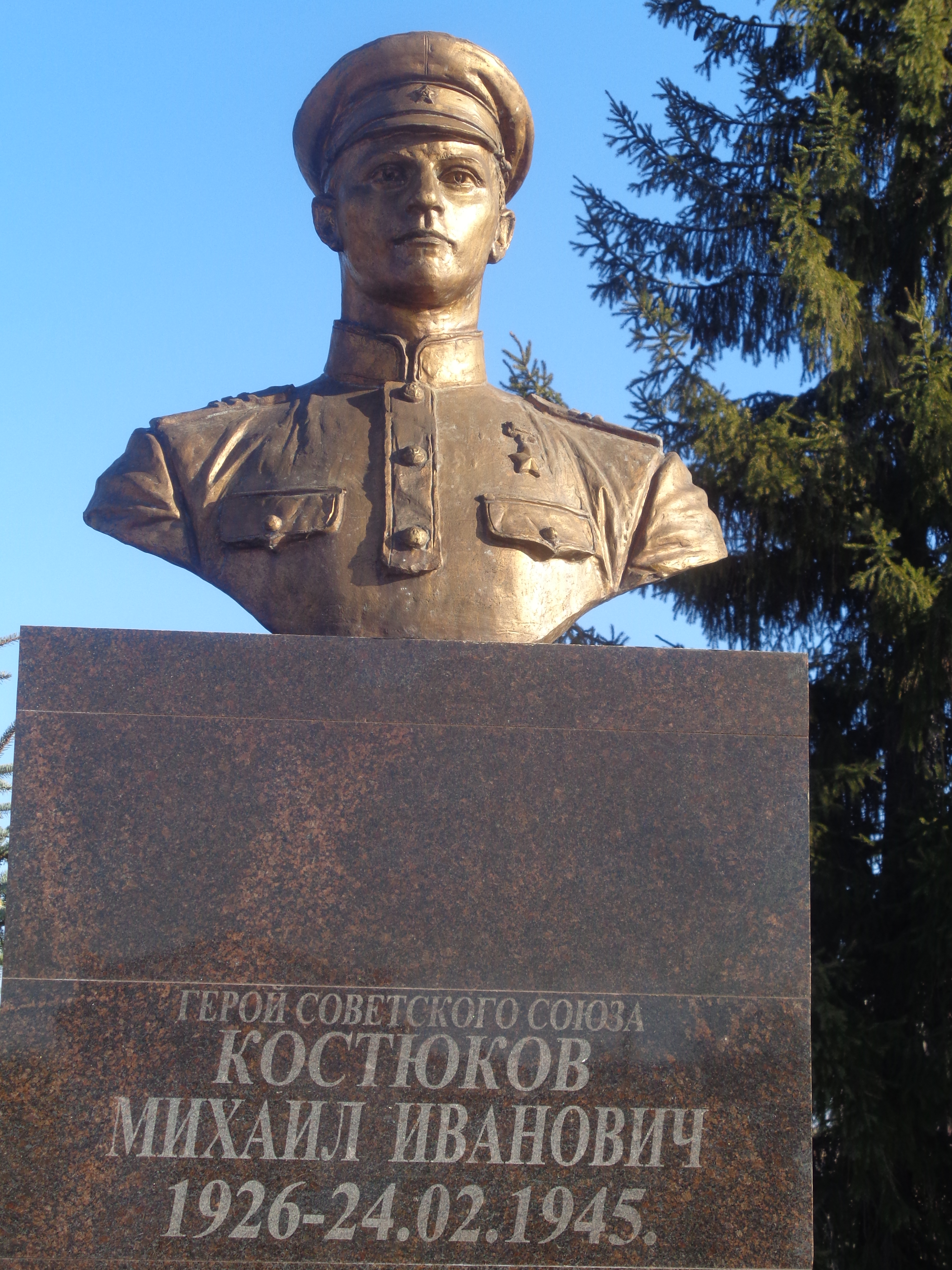 Monument to Hero of the Soviet Union Kostyukov Mikhail Ivanovich